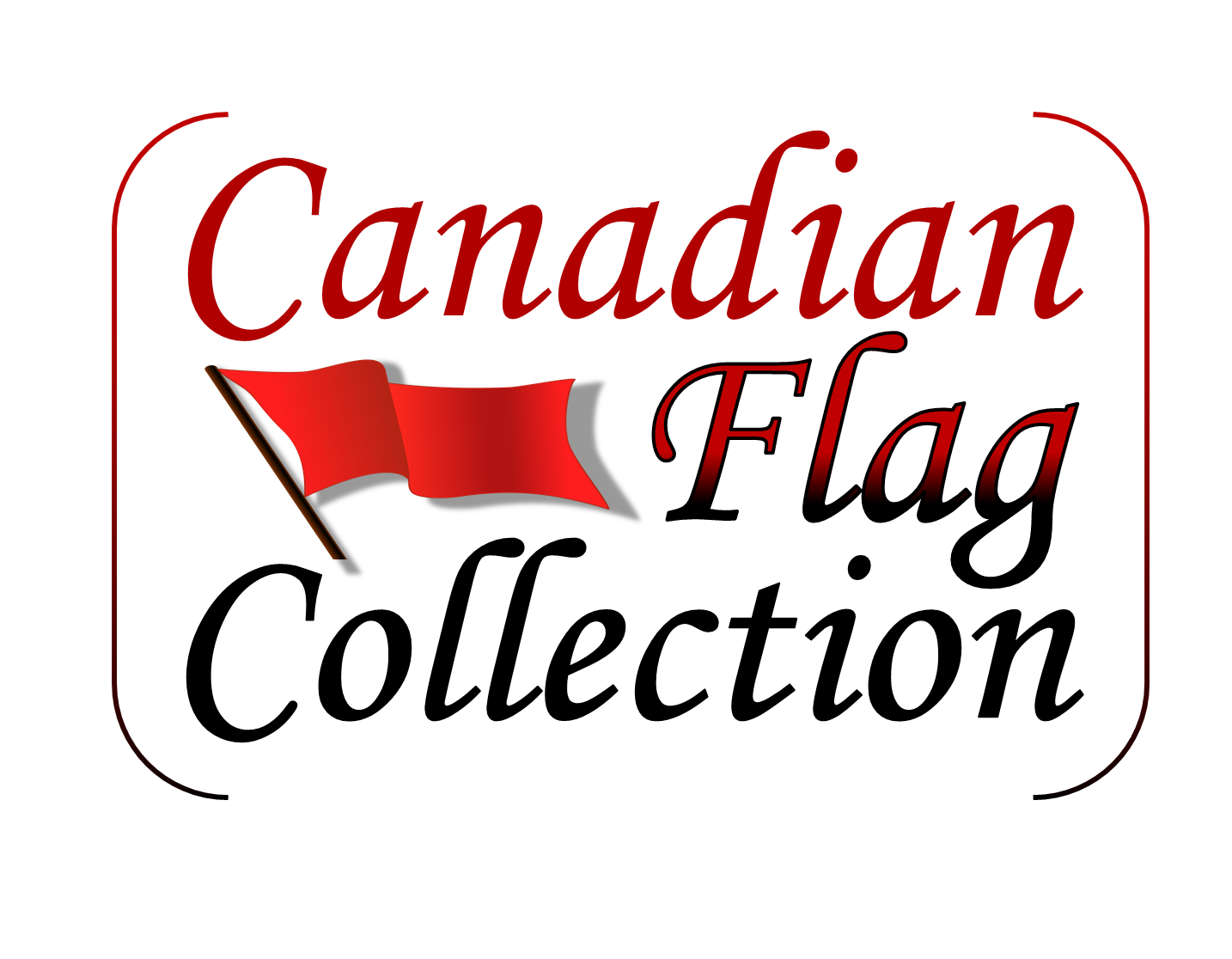 Logo of the Canadian Flag Collection at Settlers, Rails & Trails Inc, Argyle, Manitoba, Canada